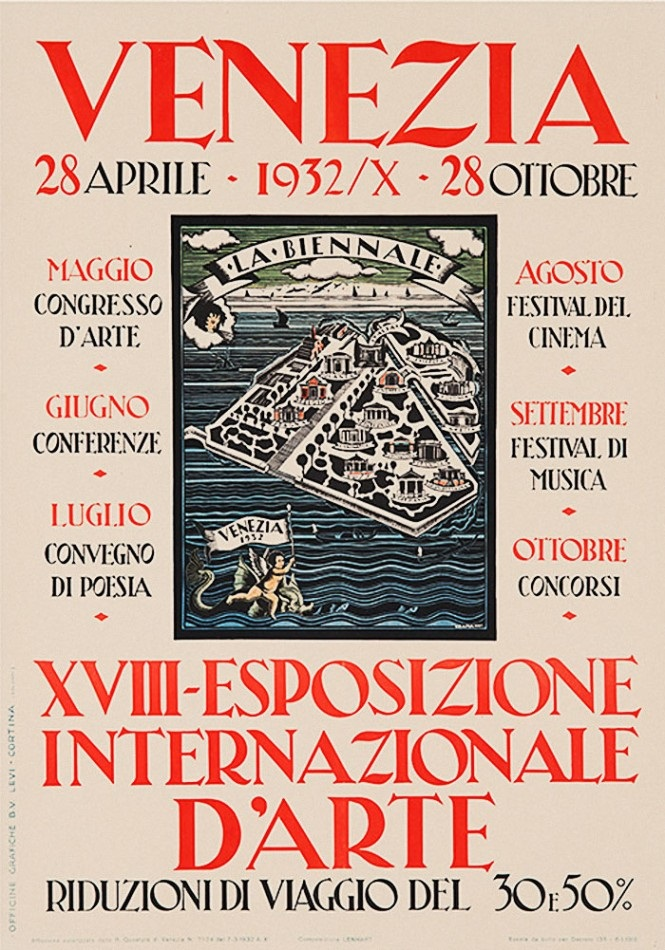 XVIII Venice Biennale 1932